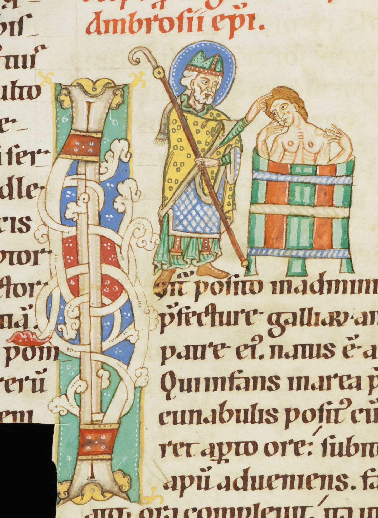 Illumination from the Passionary of Weissenau (Weißenauer Passionale); Fondation Bodmer, Coligny, Switzerland; Cod. Bodmer 127, fol. 182v